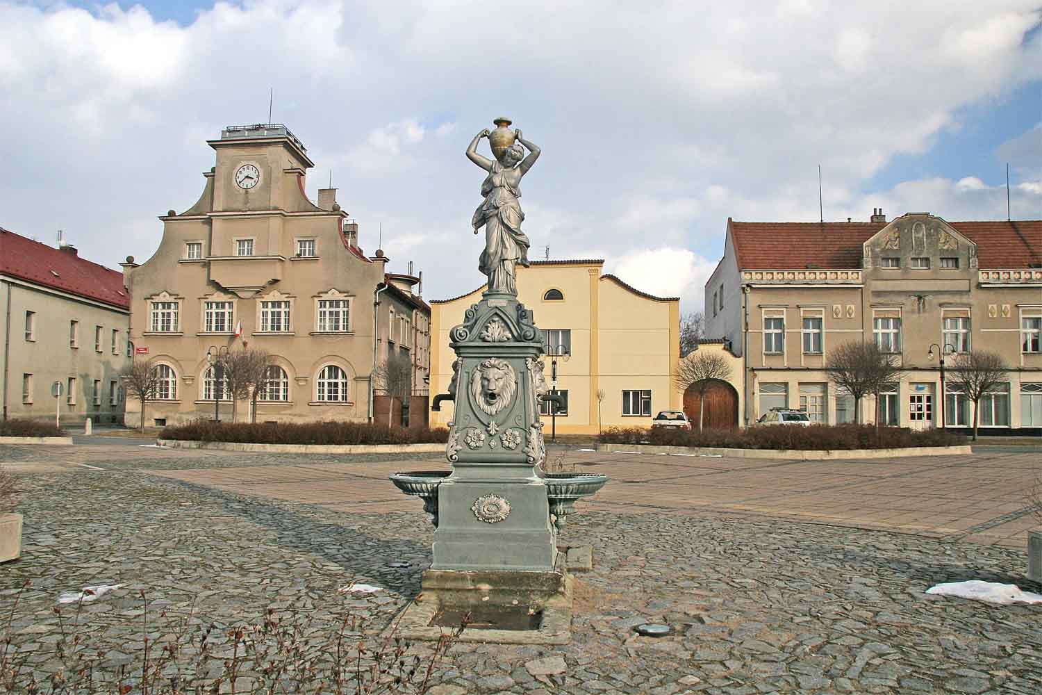 Fountain in town square of Dašice, Czech Republic.